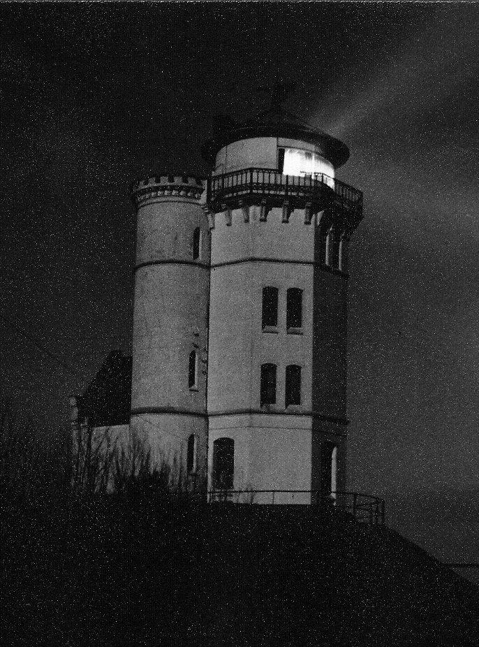 Lighthouse on Krautsander island, Drochtersen, 1951 (lighthouse is no longer in existence).